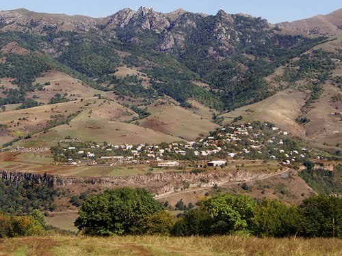 Shamlugh town, Armenia